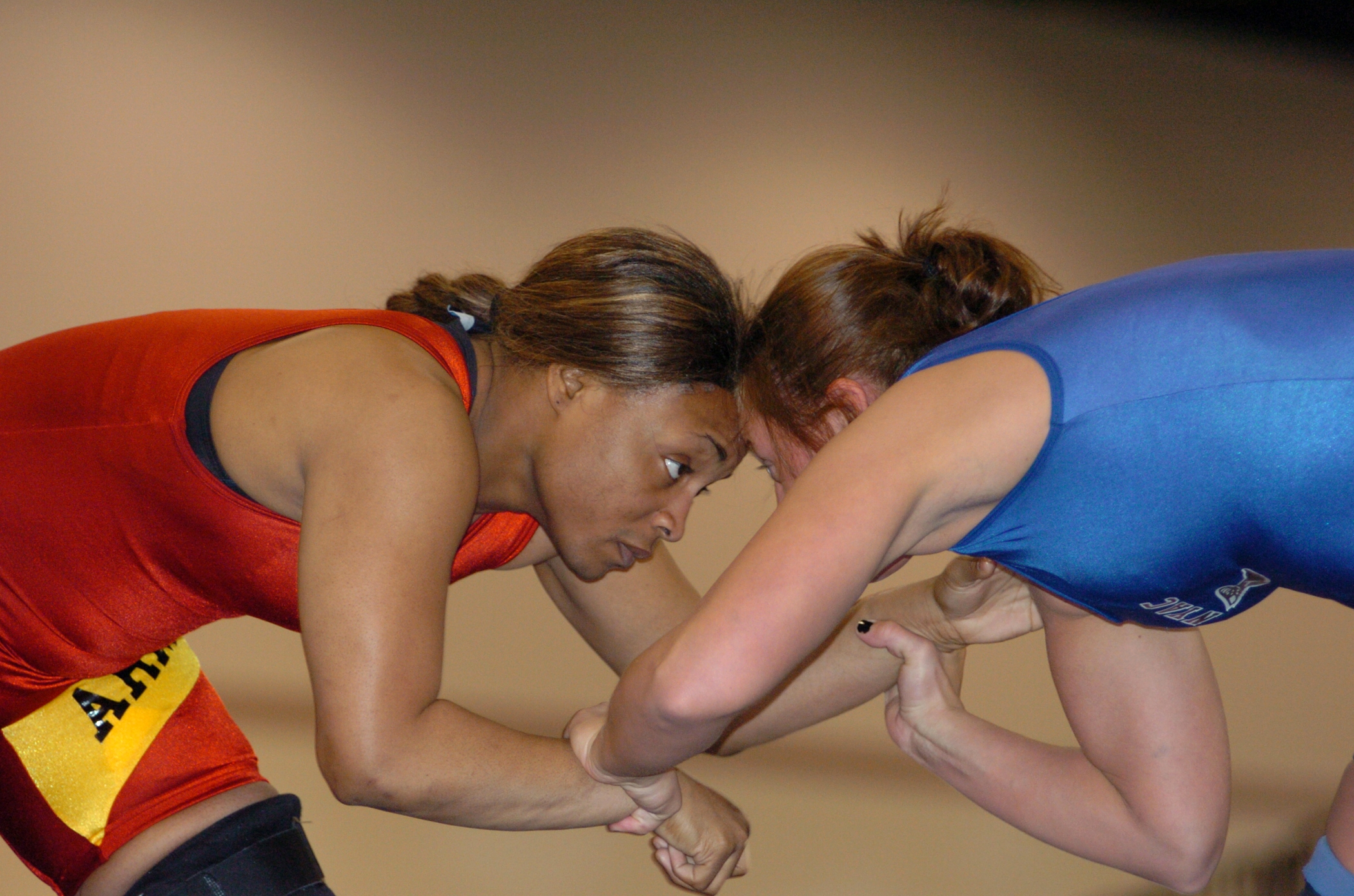 PHOTO CAPTION: Army World Class Athlete Program Sgt. Iris Smith (left) wrestles against New York Athletic Club's Kristie Marano in the women's 158.5-pound final of the 2007 U.S. National Wrestling Championships April 6 at Las Vegas Convention Center. Smith, a 2005 world champion, lost the match but qualified for the 2007 U.S. World Team Trials, scheduled for June 9-10 in Las Vegas. Photo by Tim Hipps, FMWRC Public Affairs